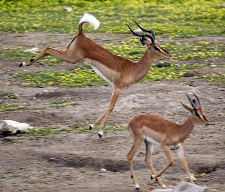 Image of an adult male black-face impala stotting